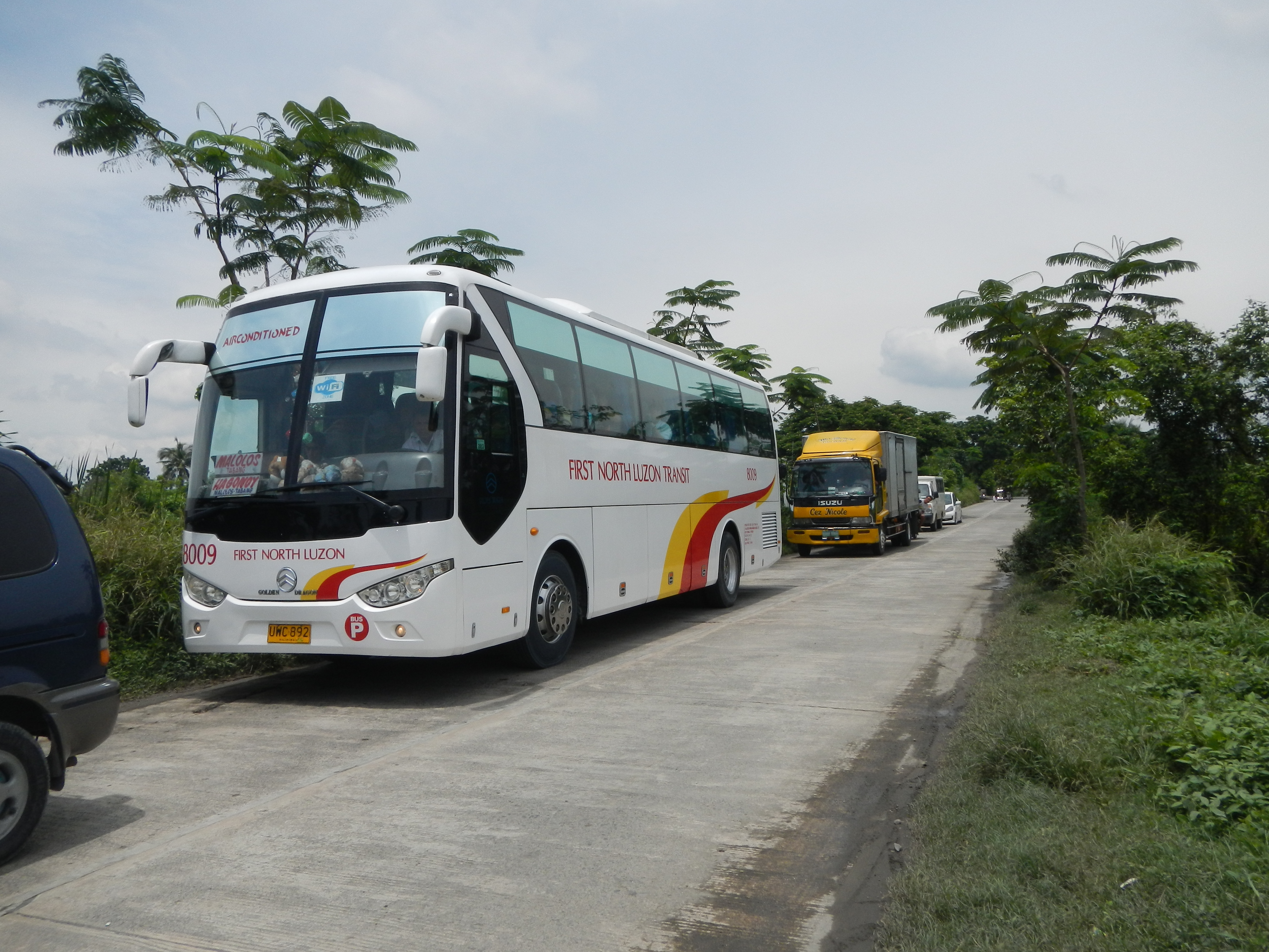 Five Star Bus Company - Another subsidiary is First North Luzon Transit - formerly known as Royal Eagle Transit - Fish ponds in Bulacan scenery along the Blas F. Ople Diversion Road at the Welcome road-signs of Paombong, Bulacan and Barangay Santo Niño, Paombong, Bulacan (adjoined by neighbor, Barangay Anilao, Malolos City, Bulacan) - Barangay Hall beside the Chapel of the Holy Child beside the Paombong-Hagonoy River under the Bridge.